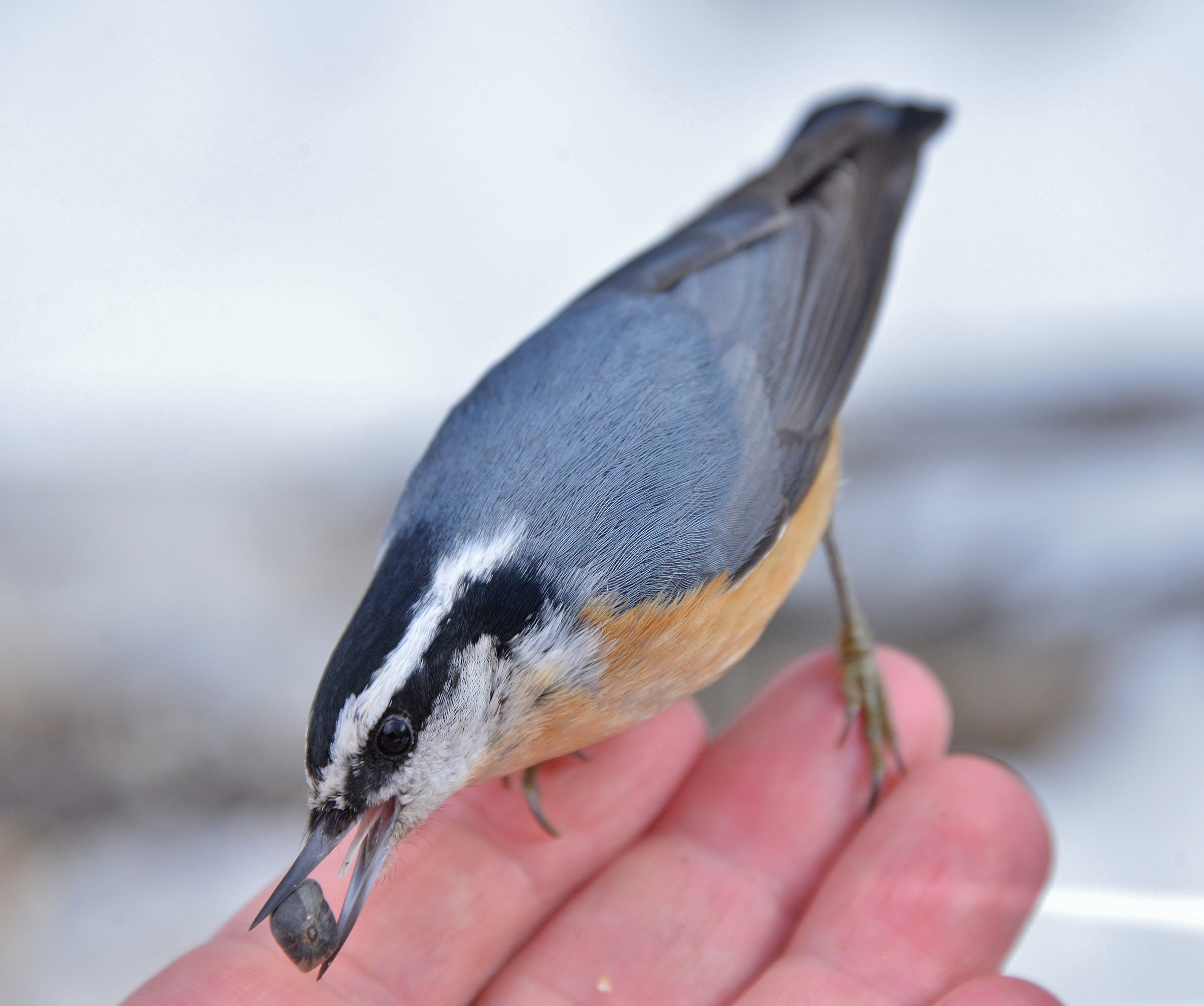 Red-breasted nuthatch (Sitta canadensis) feeding from a hand in High Park, Toronto